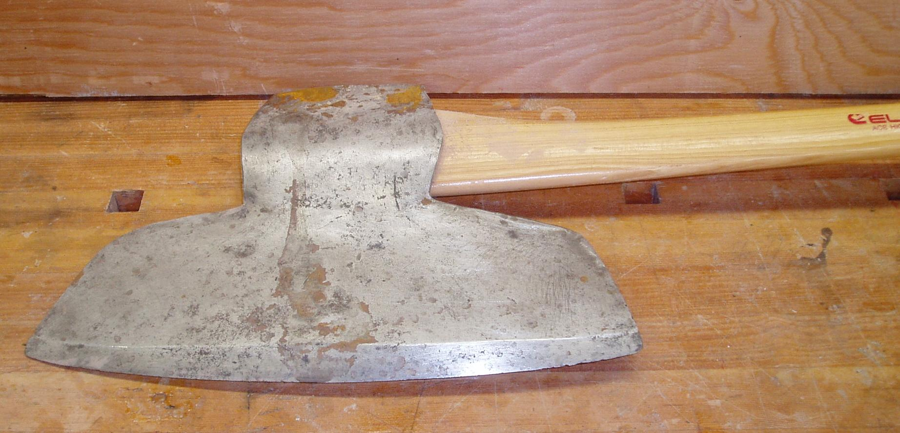 Picture of broadaxe taken 18 September, 2005 by Luigi Zanasi (myself) on my workbench using a Olympus digital camera.